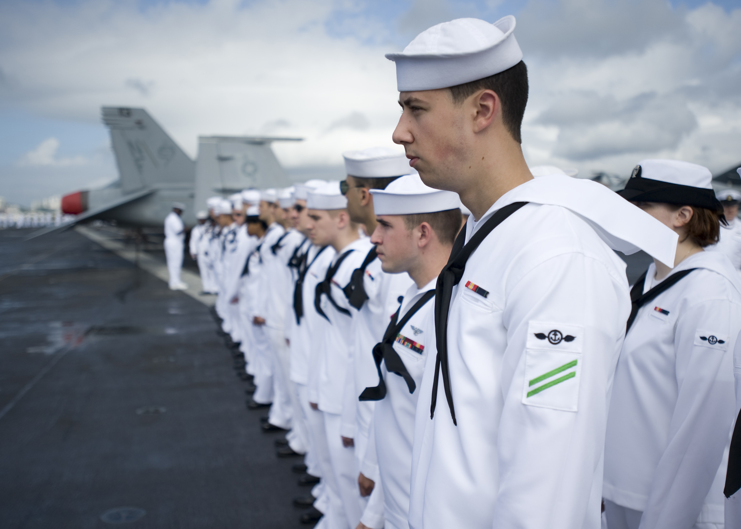 BUSAN, Republic of Korea (July 21, 2010) Sailors stand in formation as the aircraft carrier USS George Washington (CVN 73) arrives in Busan, Republic of Korea. This is the first port visit for George Washington during its 2010 summer patrol in the western Pacific Ocean and the second visit to Busan by the ship since October 2008. The Republic of Korea and the United States will conduct a combined alliance maritime and air readiness exercise "Invincible Spirit" in the seas east of the Korean peninsula from July 25-28, 2010. This is the first in a series of joint military exercises that will occur over the coming months in the East and West Seas. (U.S. Navy photo by Mass Communication Specialist 2nd Class Jared Hill/Released)